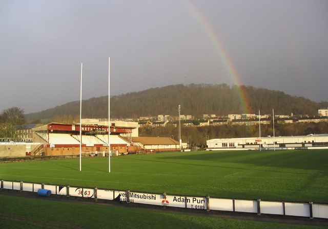 Netherdale, home of Gala Rugby Football Club Gala Rugby Football Club are a rugby union team based in Galashiels in the Scottish Borders. Founded in 1875, they play their home games at Netherdale, a stadium with a capacity of 6000. The team currently plays in the BT Premiership 2 and Border League, and the Gala sevens tournament takes place annually in April. The club has provided over the years 44 international players to the Scottish side. Other playing pitches are adjacent to this one for teams such as, Gala YM RFC, Gala Wanderers RFC (under 18 team) and Gala Red Triangle RFC (under 16 team).(More information on Gala RFC can be found at:- LinkExternal link